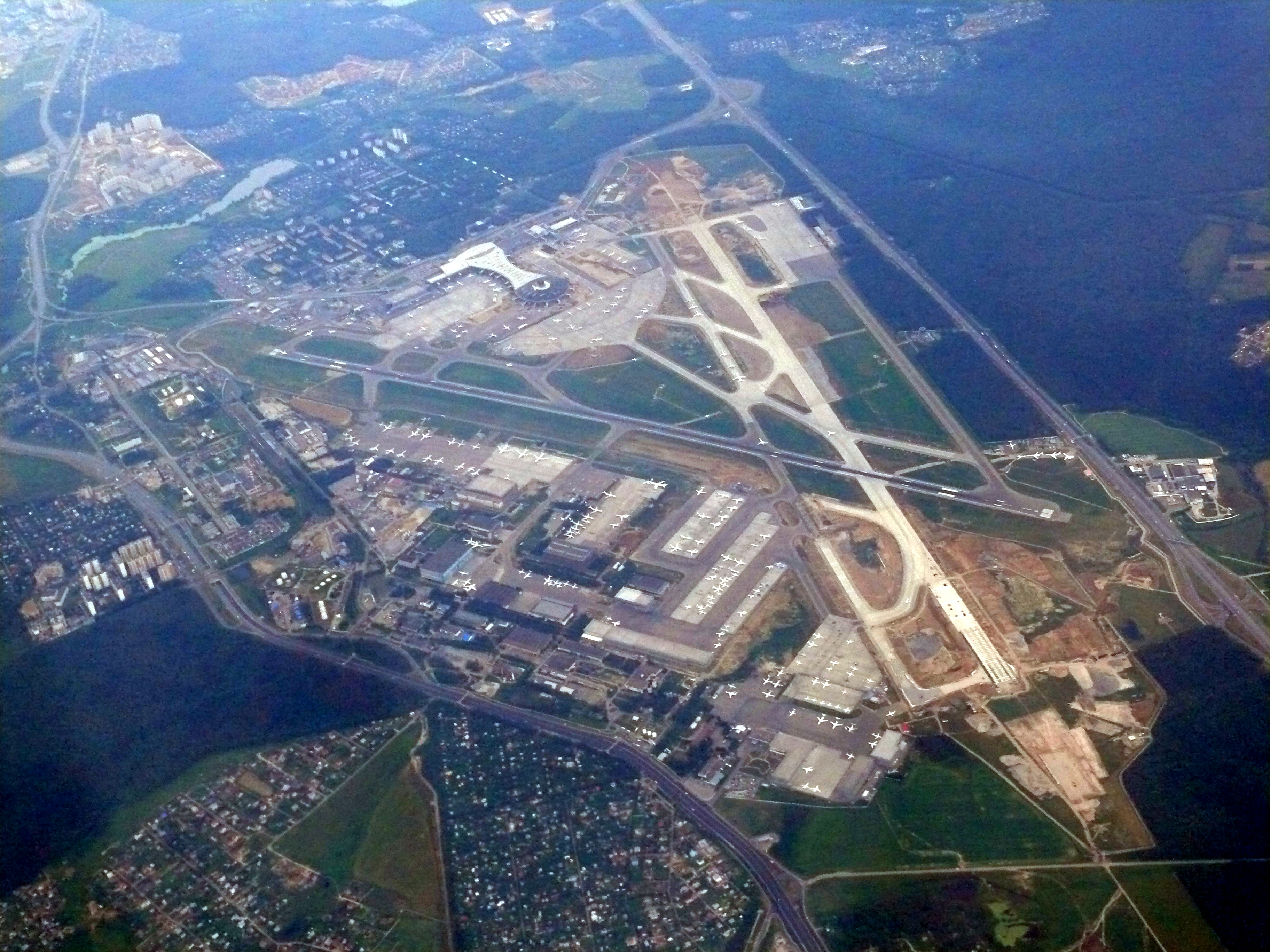 Vnukovo International Airport